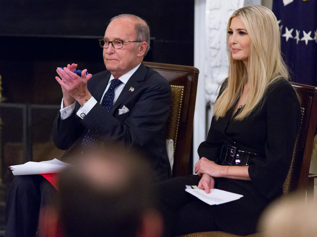 President Donald J. Trump, Ivanka Trump, and Larry Kudlow participate in the "Our Pledge to America's Workers" event Wednesday, Oct. 31, 2018 (Photo Courtesy of Haley Maddrey)